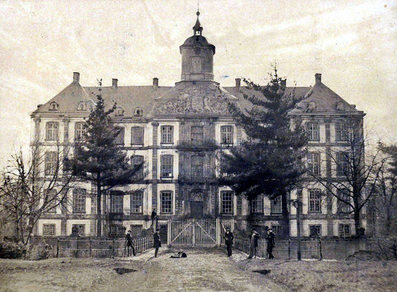 Old photograph of main building (demolished in 1859) of Schloss Wickrath near Mönchengladbach, Germany.